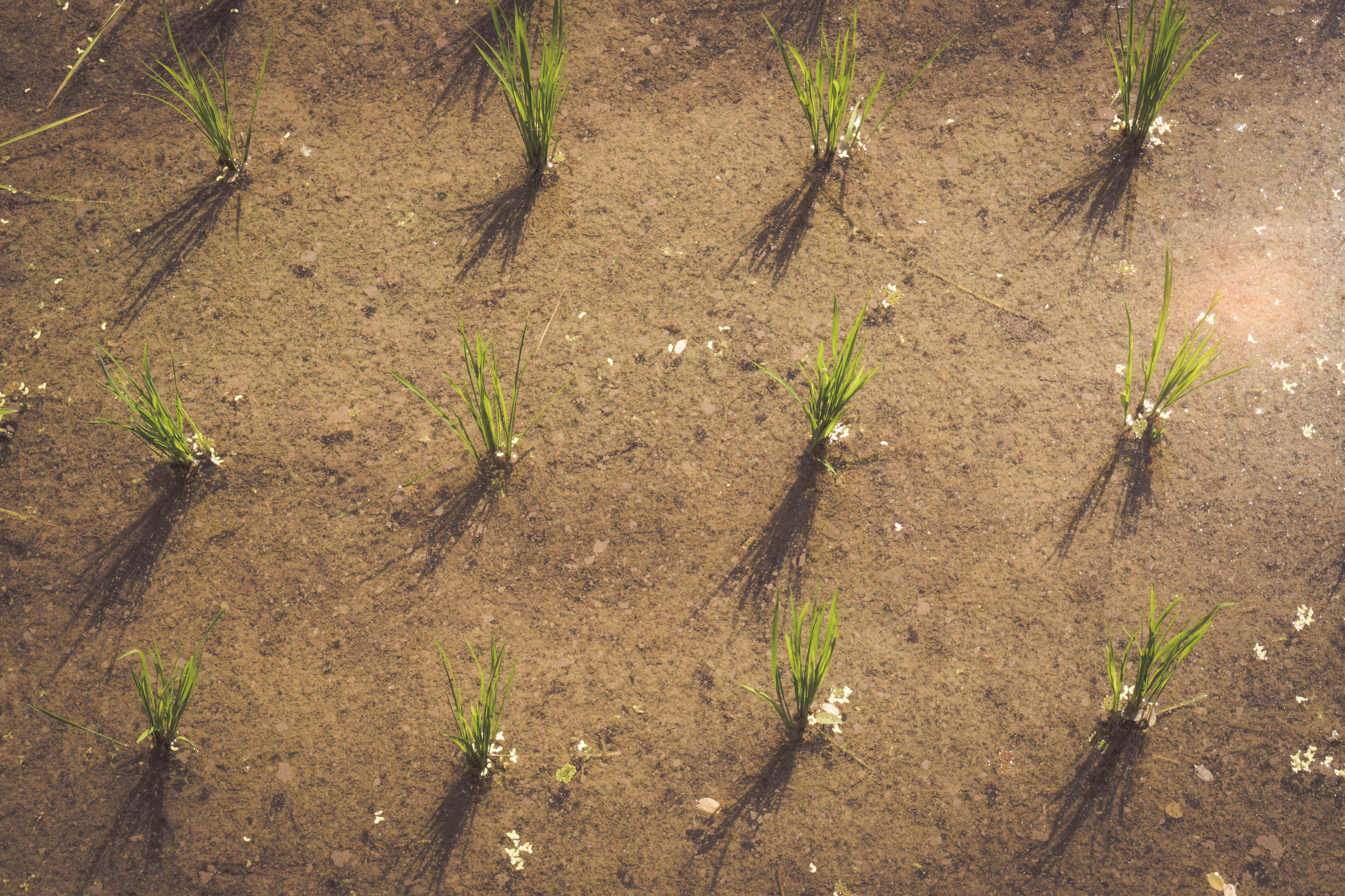 Freshly sprouted rice plants